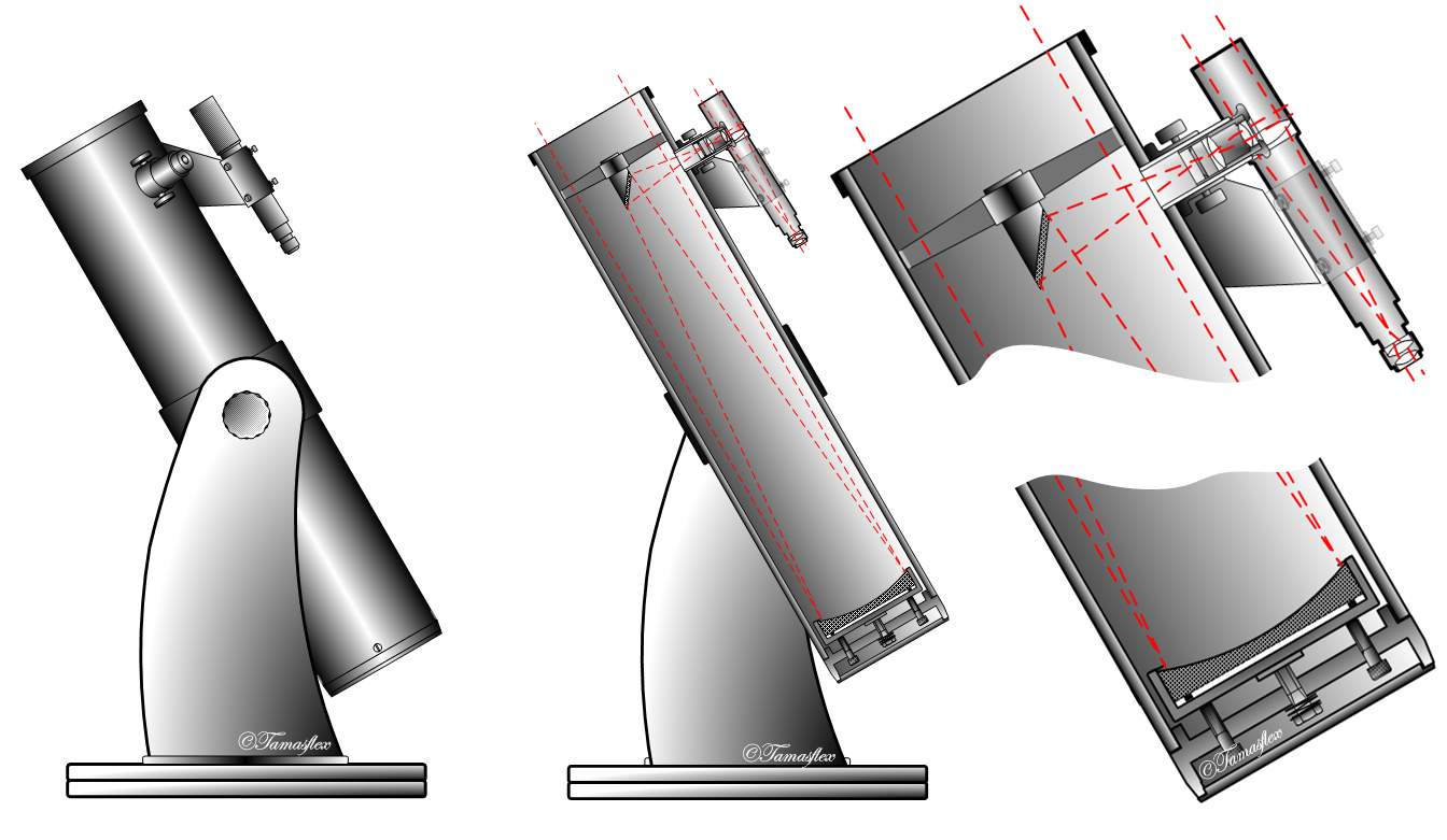 Dobsonian telescope.